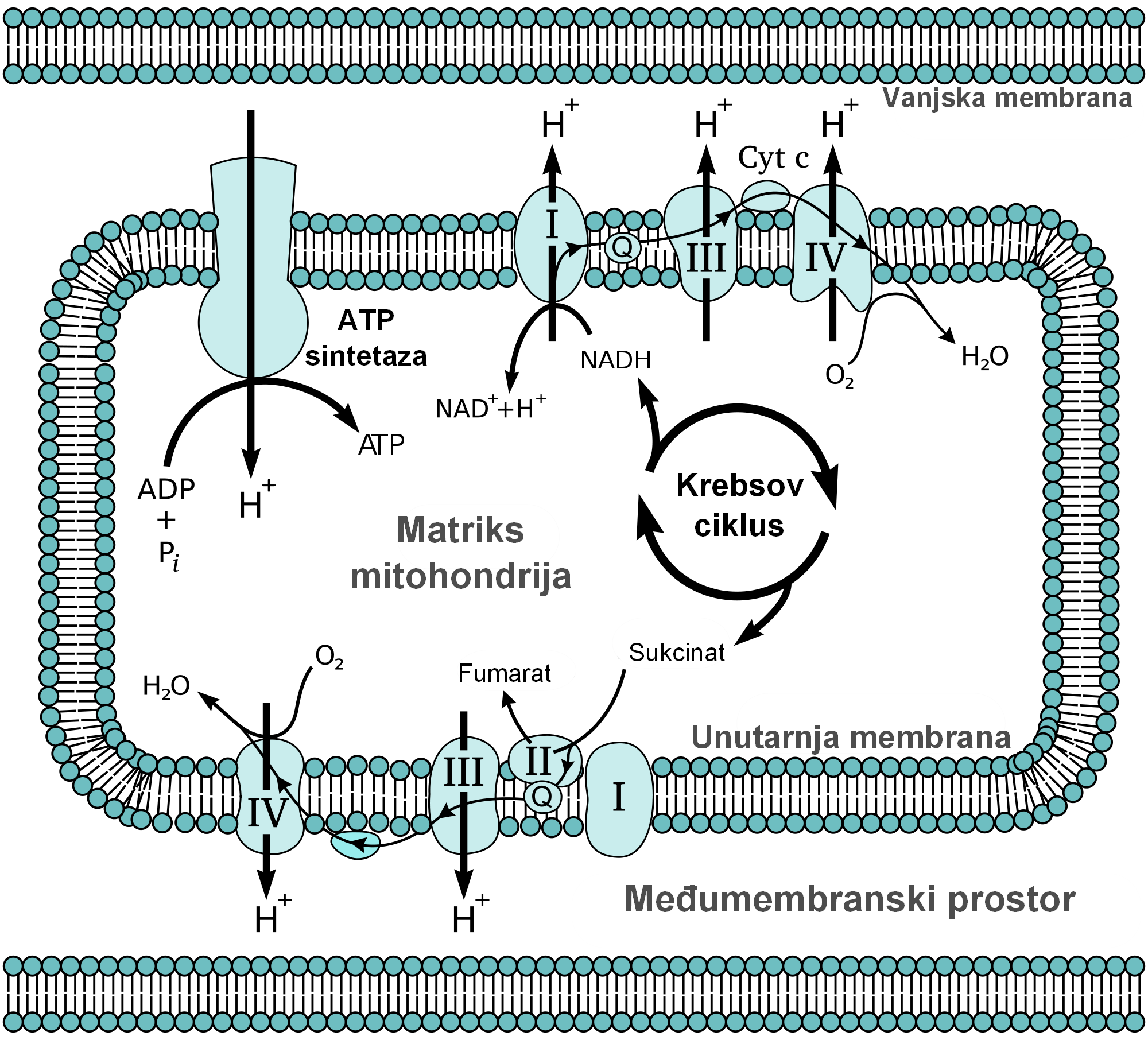 Croatian version on Image:Mitochondrial electron transport chain—Etc4.svg